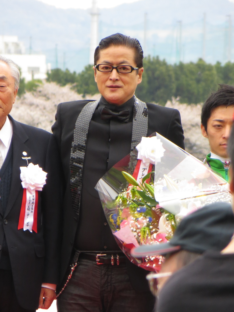 Takanori Jinnai (Japanese Actor) in 74th Oka Sho, Hanshin Racecourse.